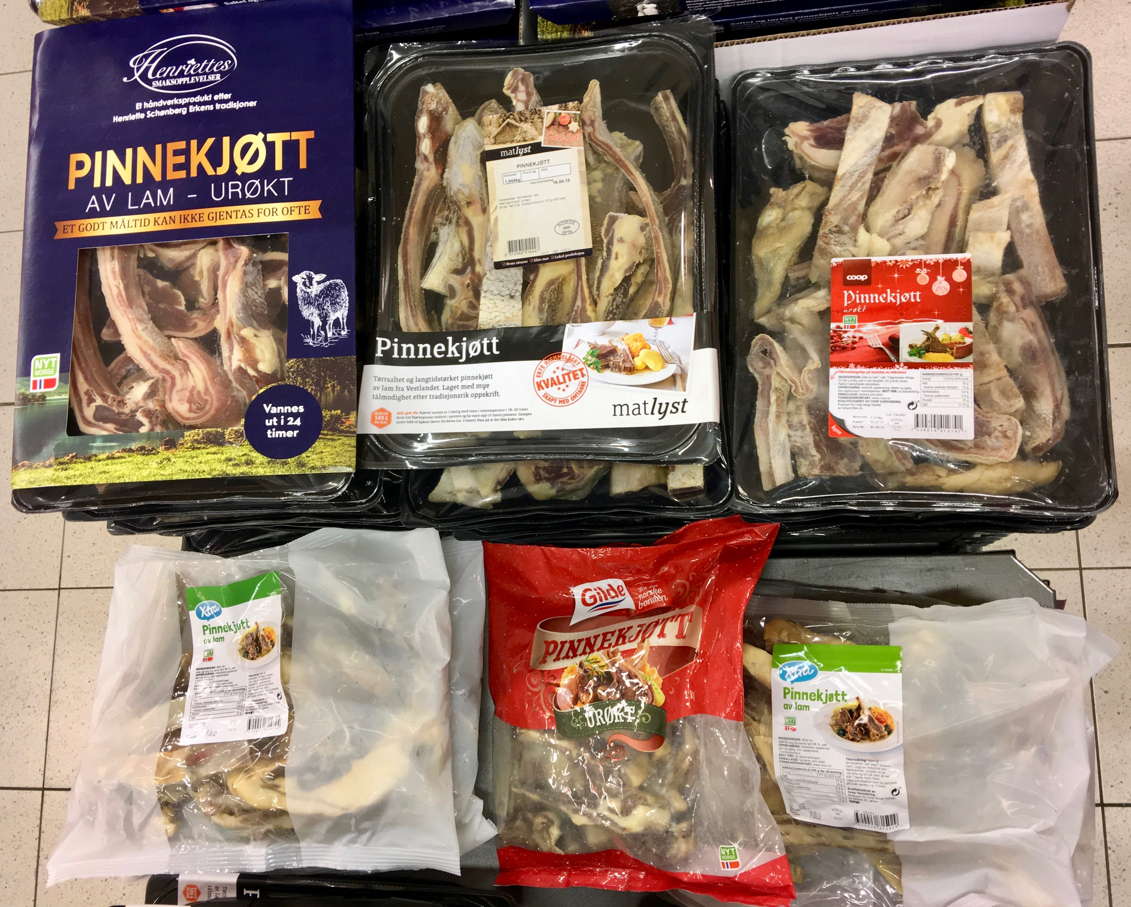 Extra Coop Supermarket, Amfi Shopping Mall in Osøyro, Hordaland, Norway. 2018-03-22. Plastic bags with traditional Western Norwegian Christmas food: "pinnekjøtt", i.e. "stick meat", cured salted dried lamb mutton cuts ribs from Gilde, Xtra, Henriettes, Matlyst and Coop.